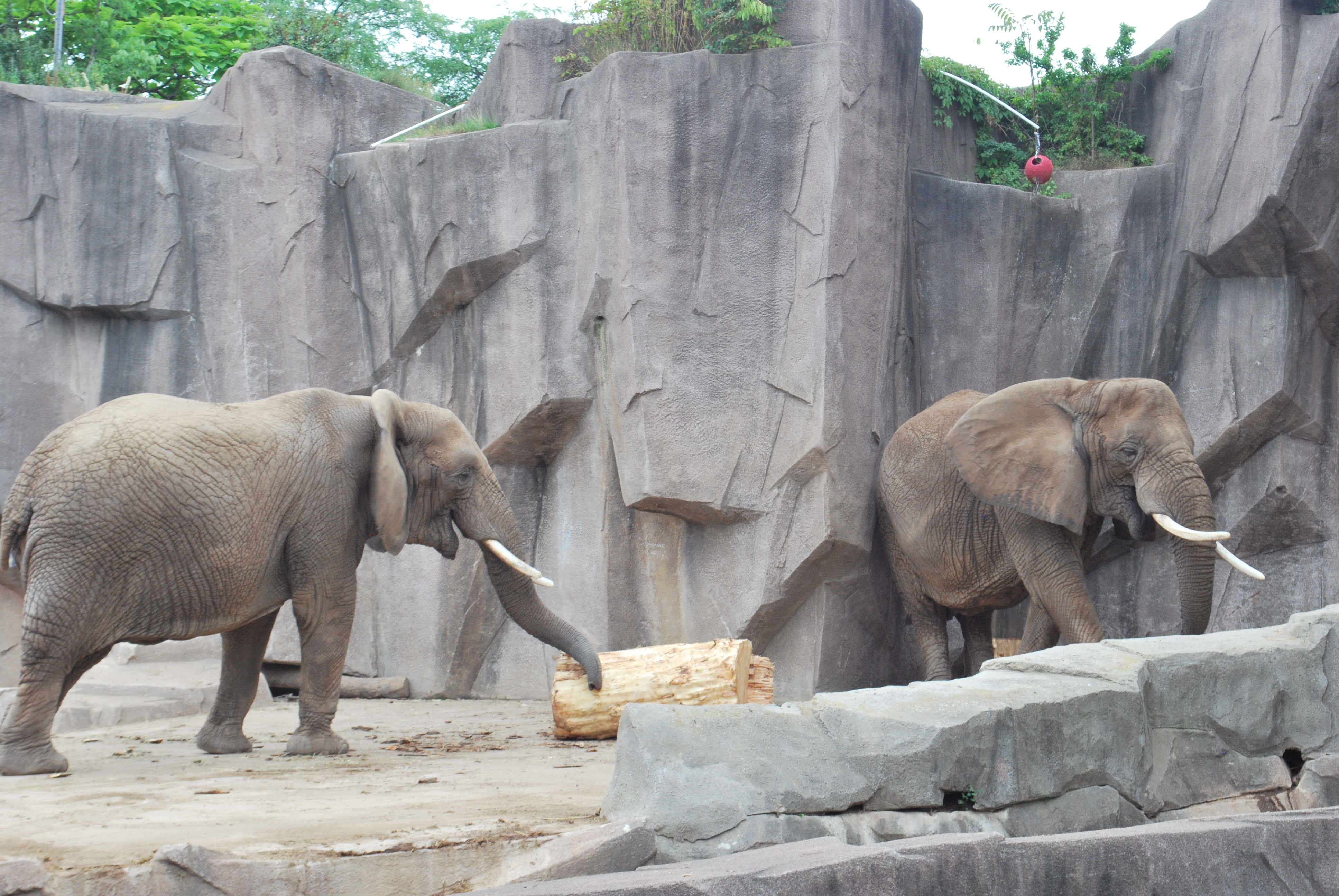 african elephant (Loxodonta) Milwaukee County Zoo Milwaukee, WI 07.2015